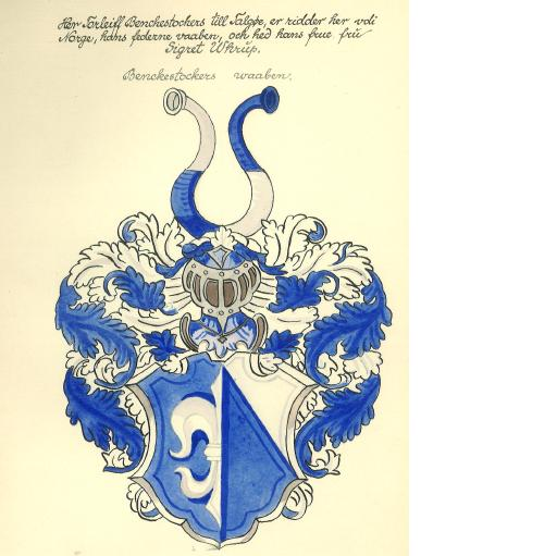 Birgitte Knudsdatter Seeblad's Norwegian roll of arms